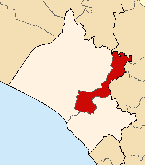 Location of the province Ferreñafe in the Lambayeque region in Peru (Map)